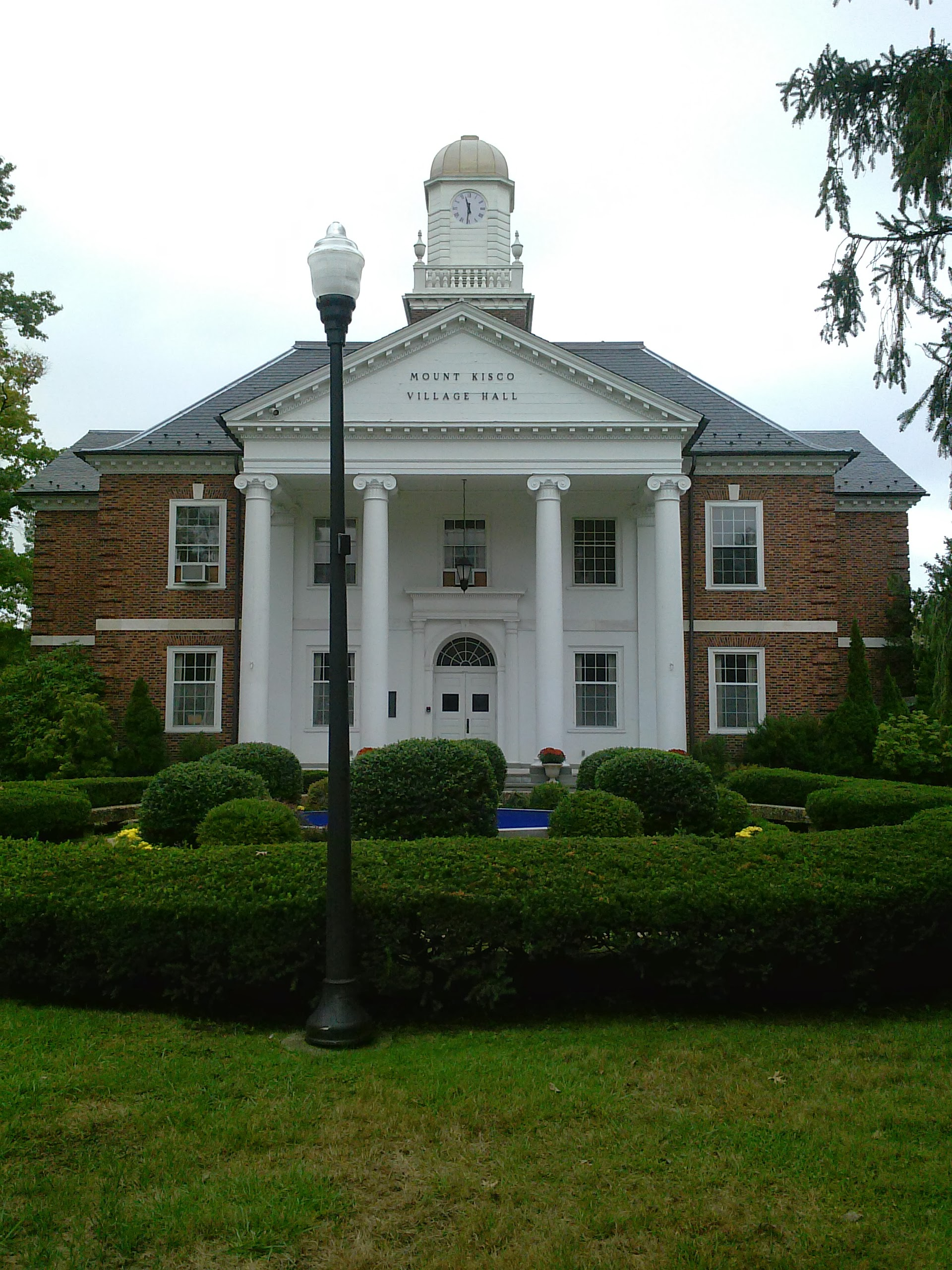 Mount Kisco Village Hall, part of the Mount Kisco Municipal Complex in Mt. Kisco, New York, listed on the National Register of Historic Places